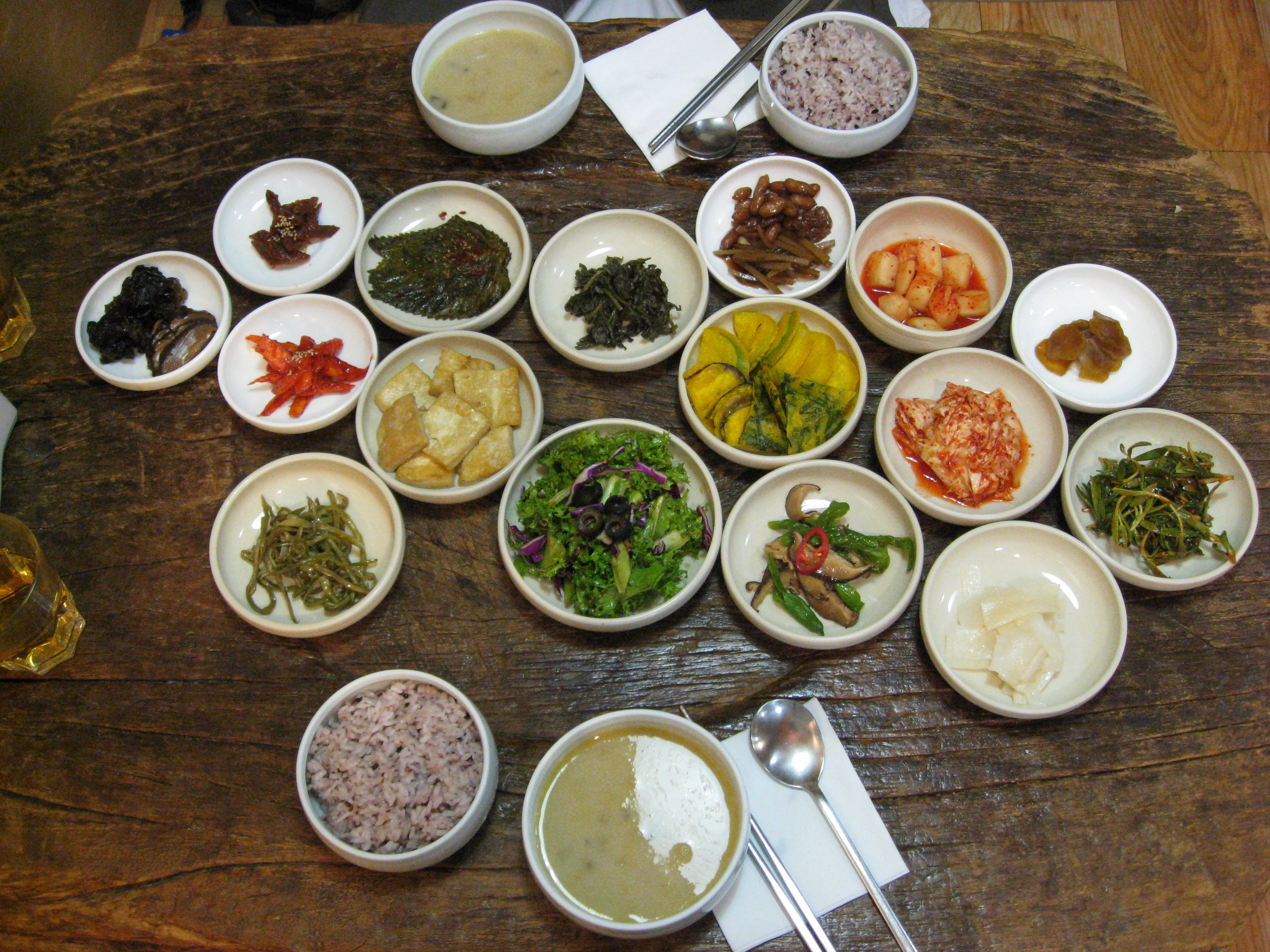 Sosim, a vegetarian restaurant located in Anguk-dong, Jongno-gu, Seoul, South Korea.